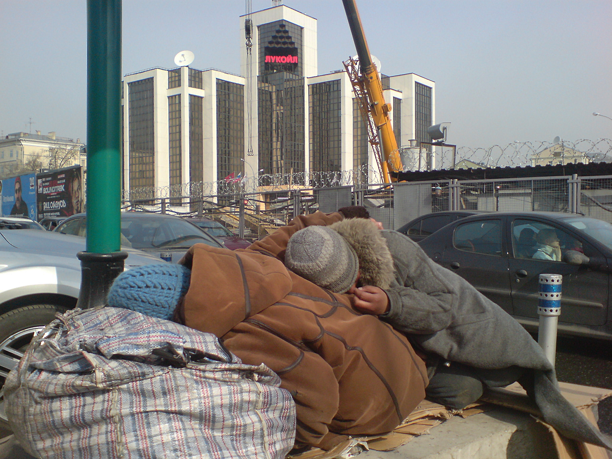 Beggars sleep near the LUKOIL.